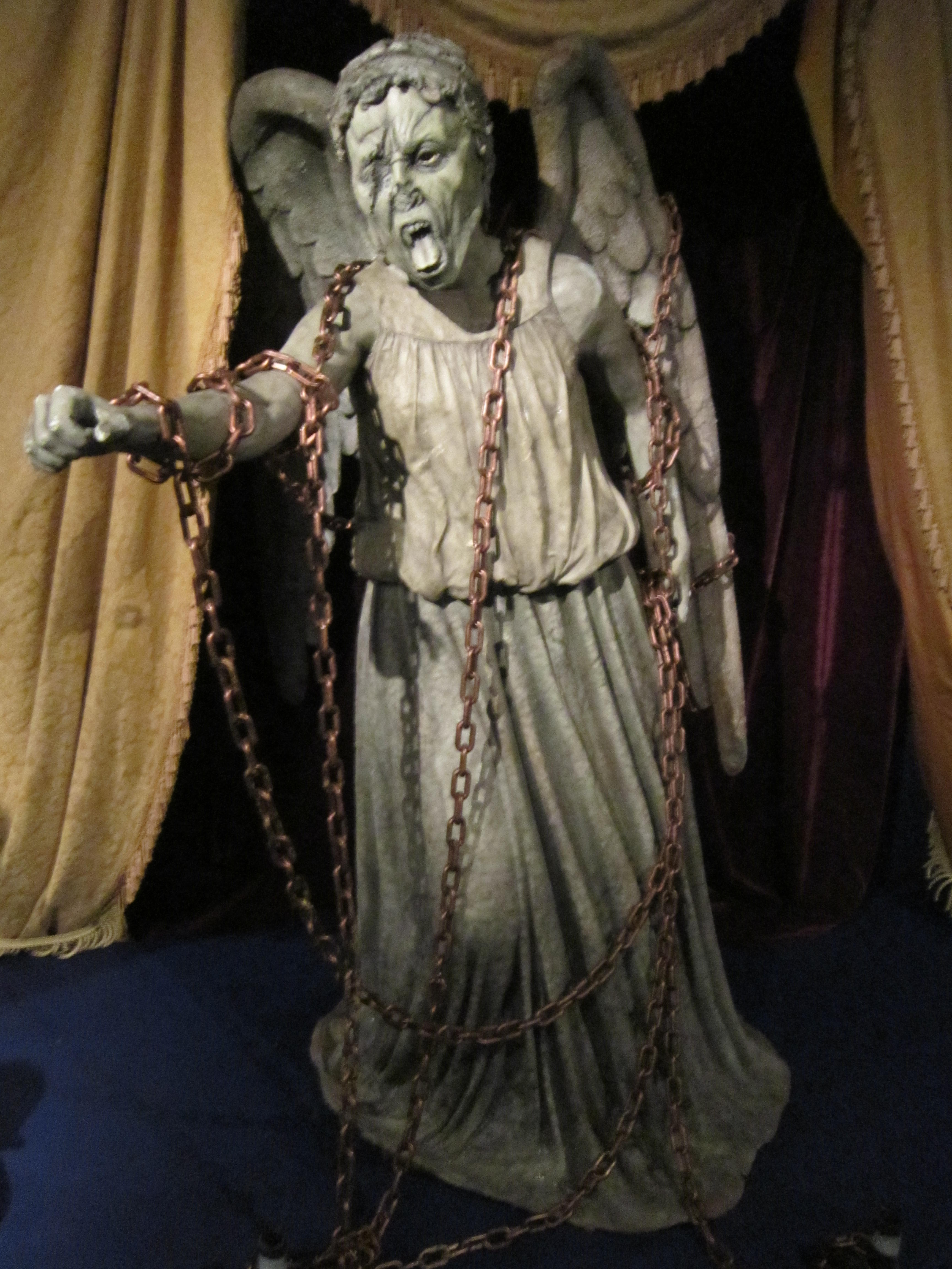 La Doctor Who Experience à Cardiff Doctor Who Experience